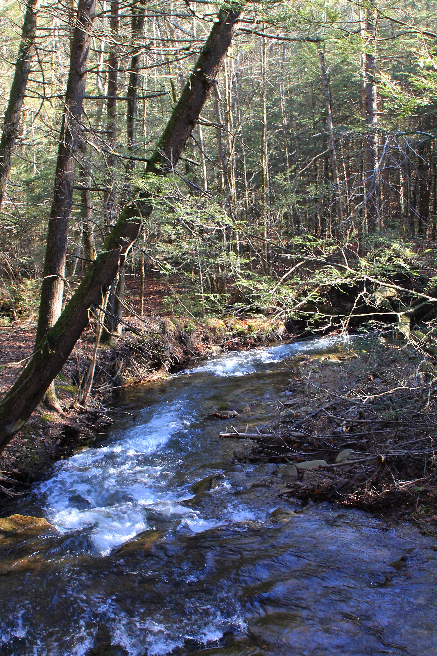 Arnold Creek, a headwater tributary of Huntington Creek, looking downstream